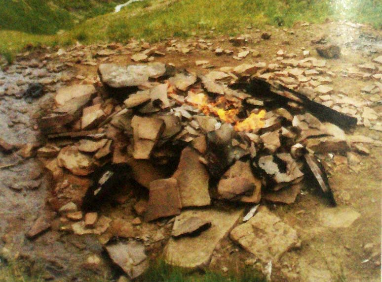 Ateshgah of Khinaluq